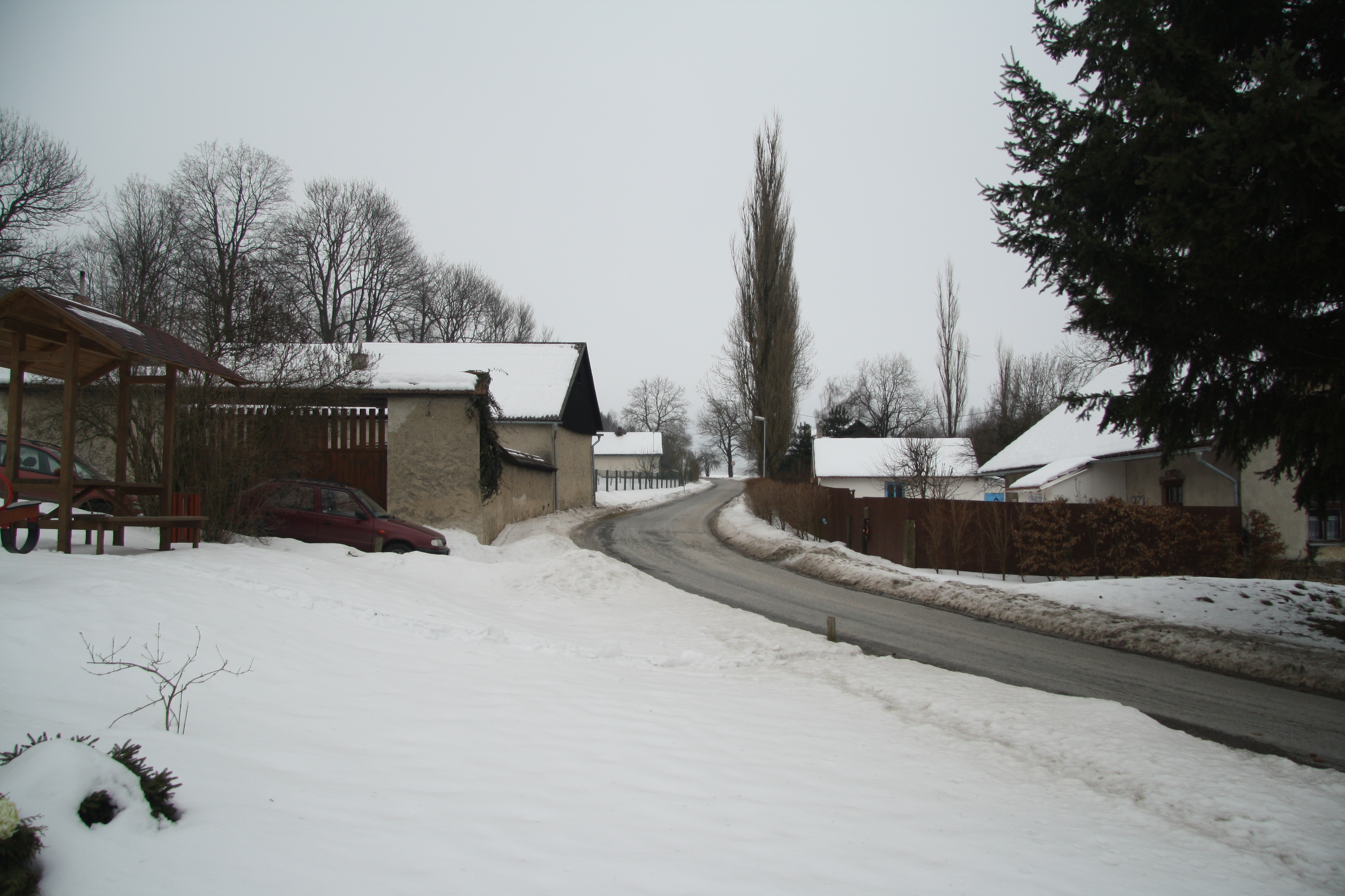 Top part of Branišov, Ústí, Jihlava District.